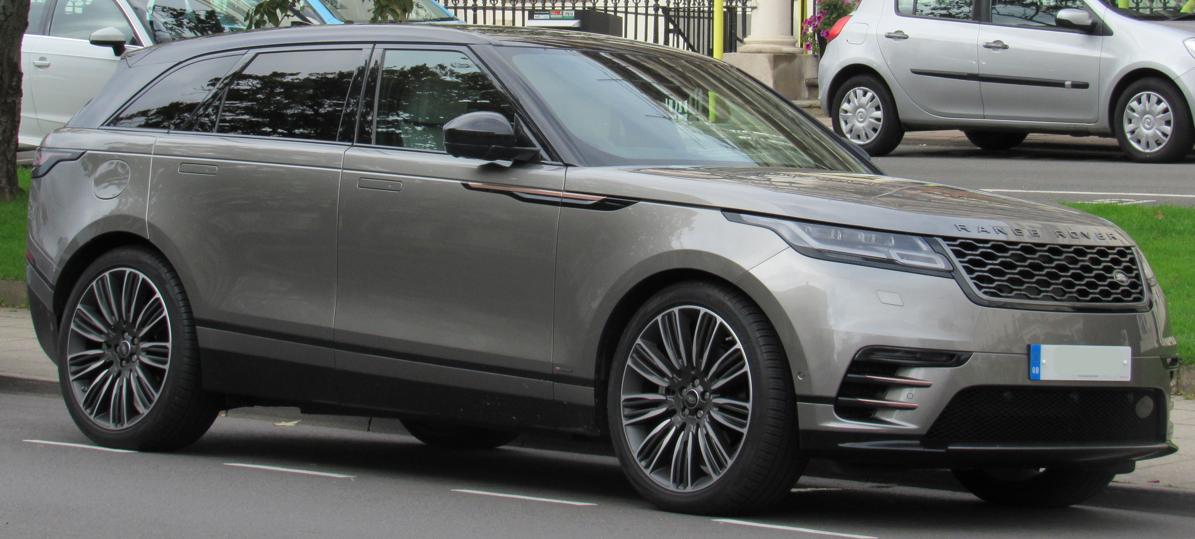 2017 Land Rover Range Rover Velar First Edition D3 3.0 Front Taken in Leamington Spa